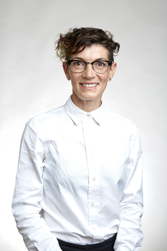 Polly Louise Arnold is a Professor of Chemistry at the University of Edinburgh where she holds the Crum Brown Chair of Chemistry. As of 2019 she holds an Engineering and Physical Sciences Research Council (EPSRC) career fellowship, also at the University of Edinburgh Attribution: The Royal Society